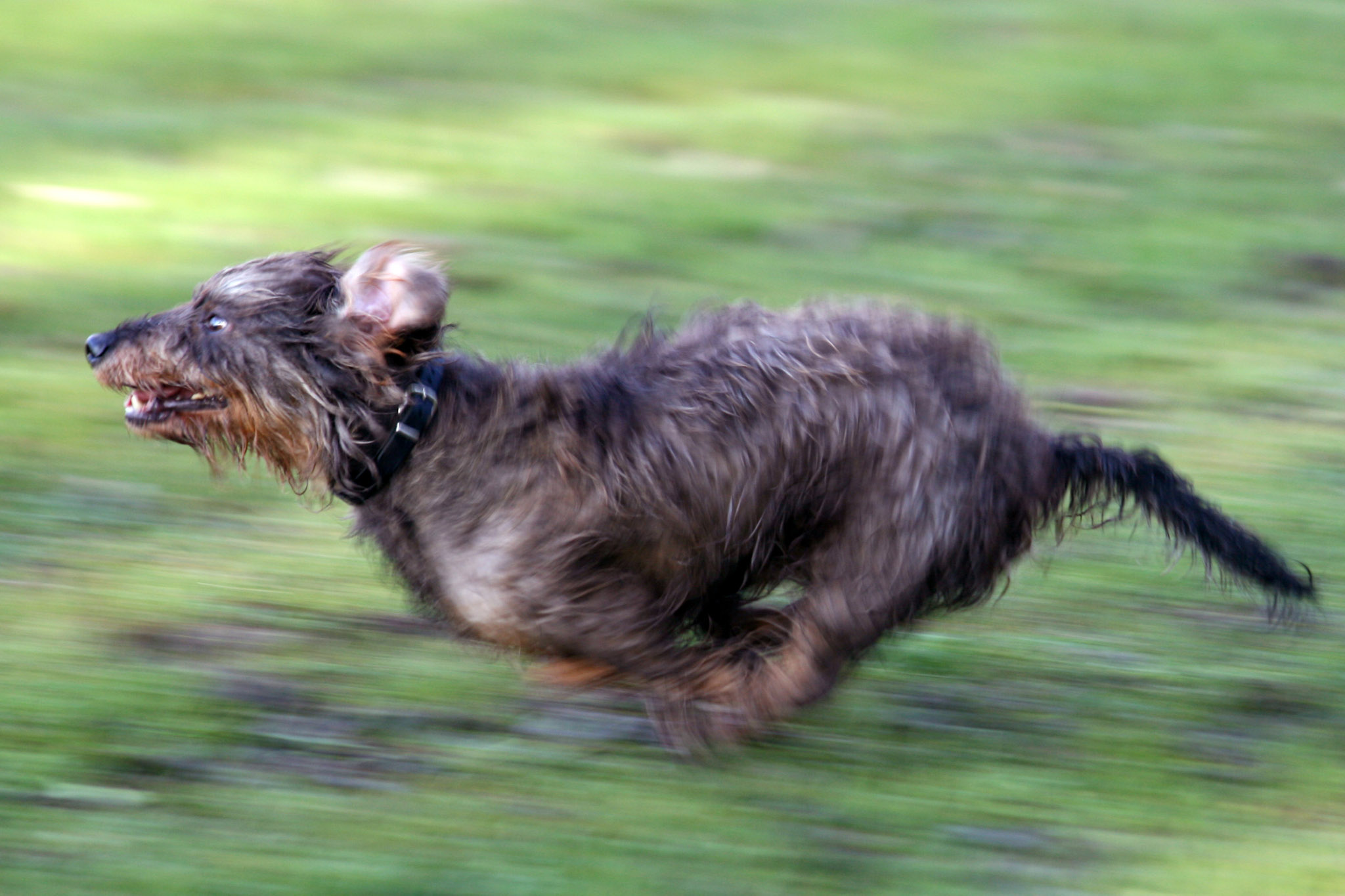 Wire-haired dachshund at full speed ...